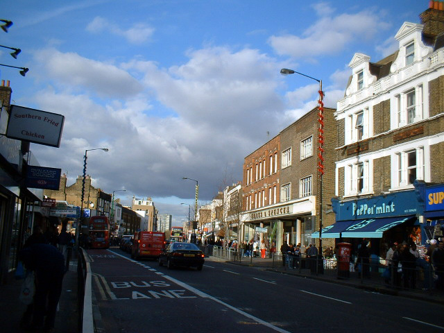 Walworth Road, Walworth, Southwark, London. Taken by C Ford, 15th November 03.